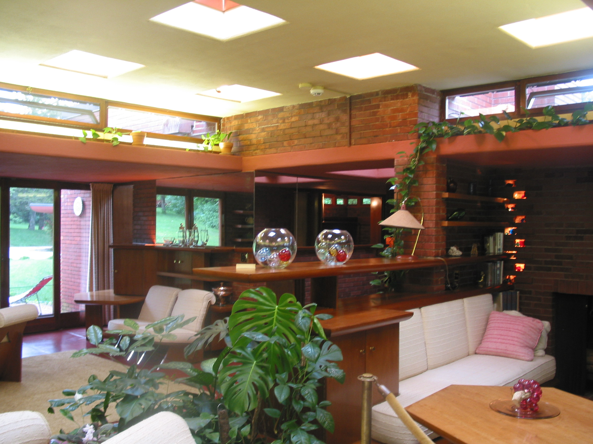 The Walter Residence, Quasqueton, Iowa